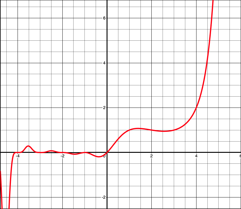 The Barnes G Function graphed over [-5, 6]. Plotted using a project of mine